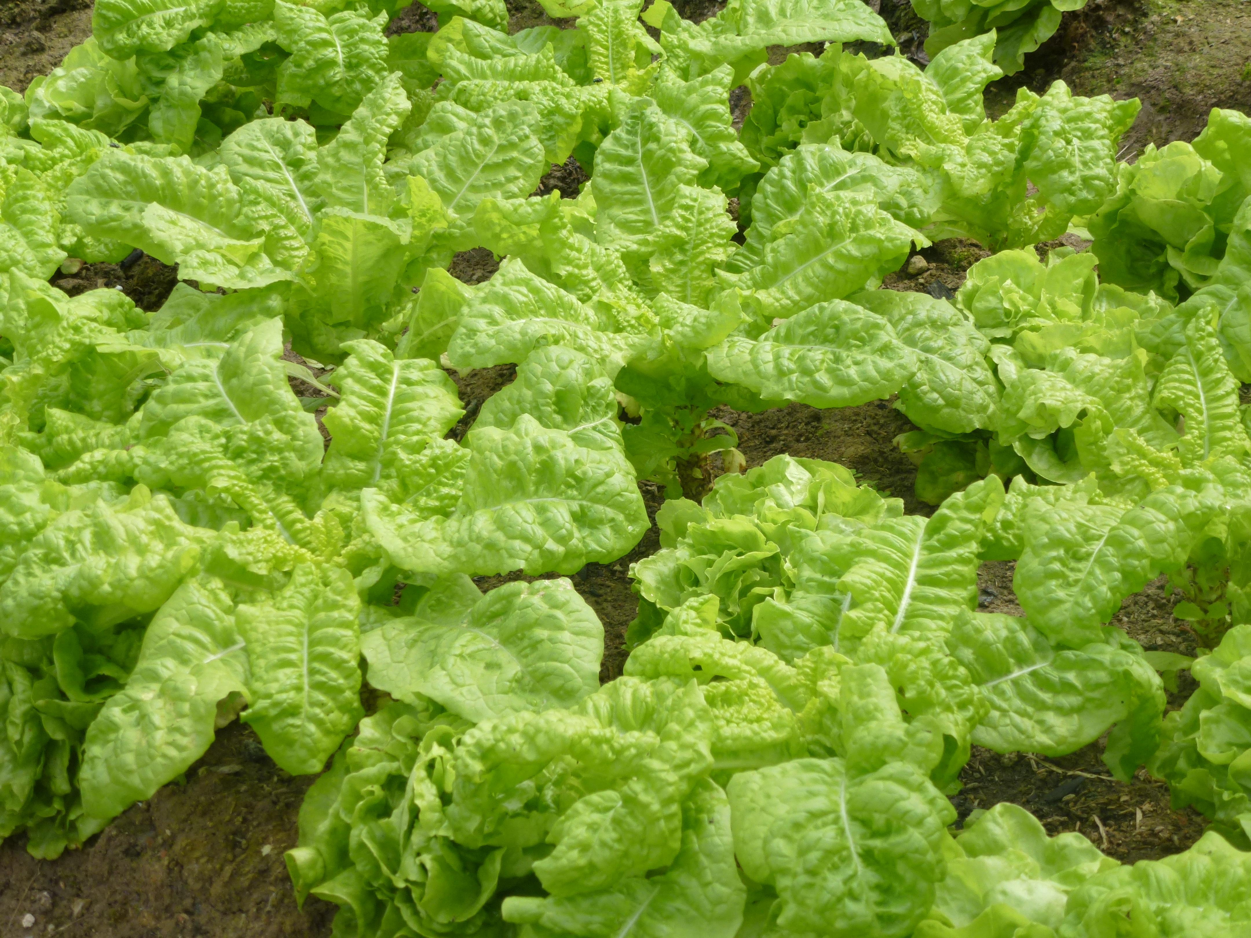 Lactuca sativa L. var. longifoliaTiếng Việt: Rau diếp